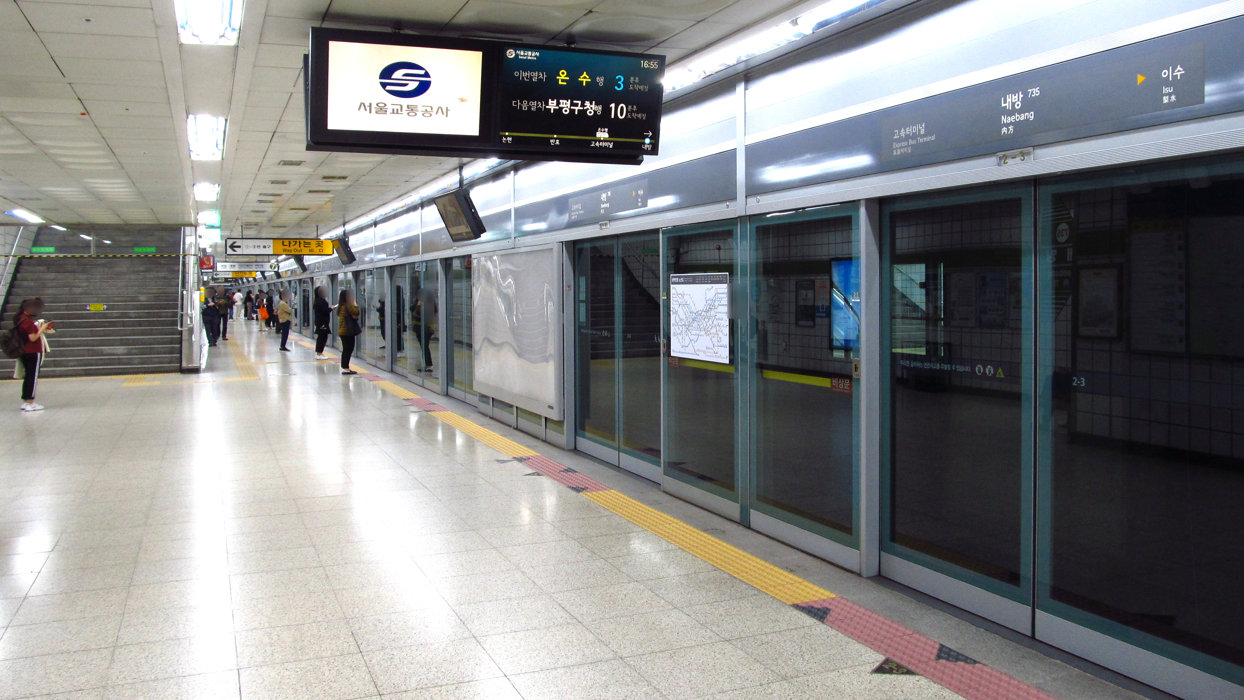 The Onsu-bound platform at Naebang Station on Seoul Subway Line 7 in Seocho-gu, Seoul, Republic of Korea(South Korea)